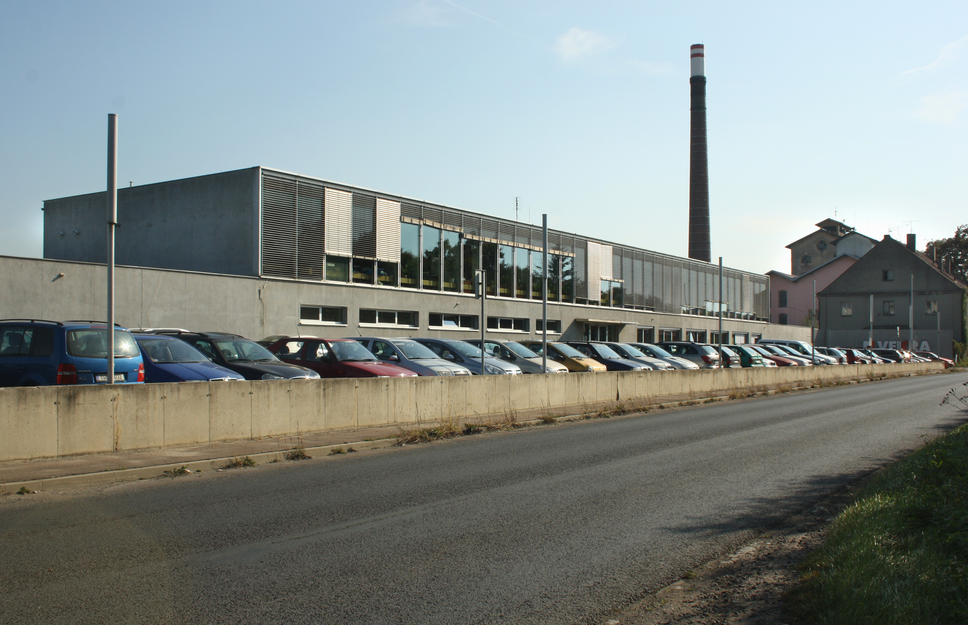 Vekra company in Lázně Toušeň, Czech Republic